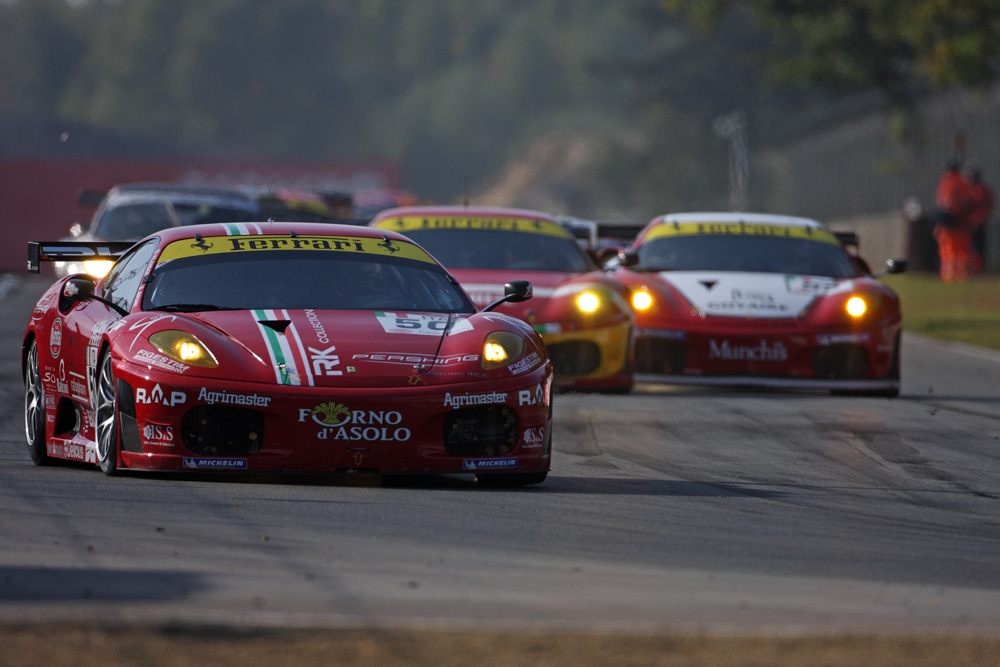 The AF Corse entered Ferrari F430 GT2 of Gianmaria Bruni & Toni Vilander leads a GT2 class battle at Zolder in the ninth round of the 2008 FIA GT Championship.